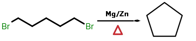 Cyclopentane catalytical synthesis from 1,5-dibromopentane